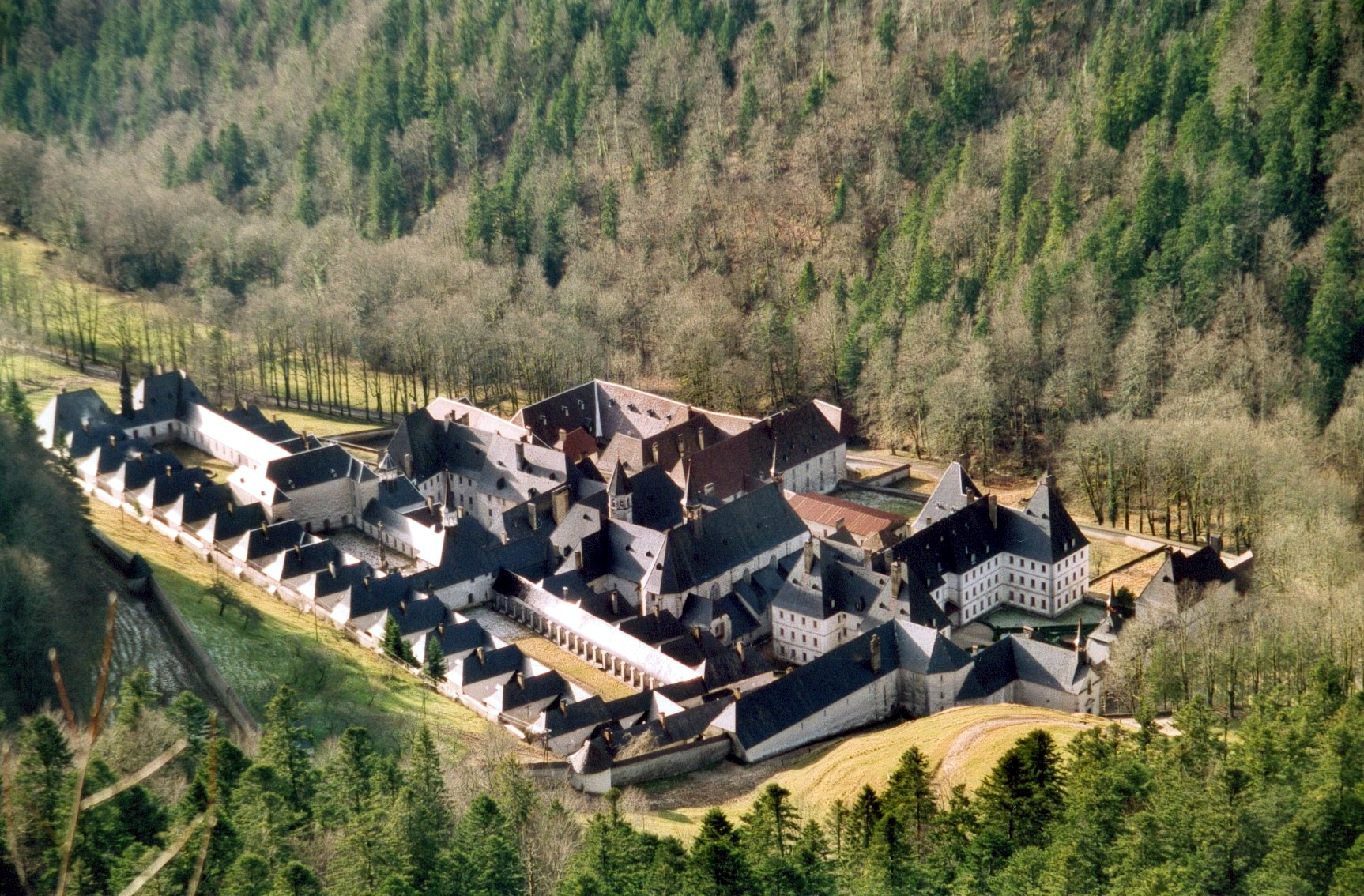 Grande Chartreuse